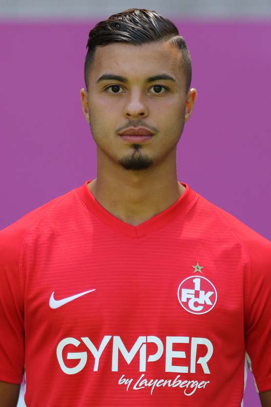 Mohamed Morabet (Nr. 27)